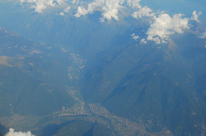 Arbedo-Castione TI